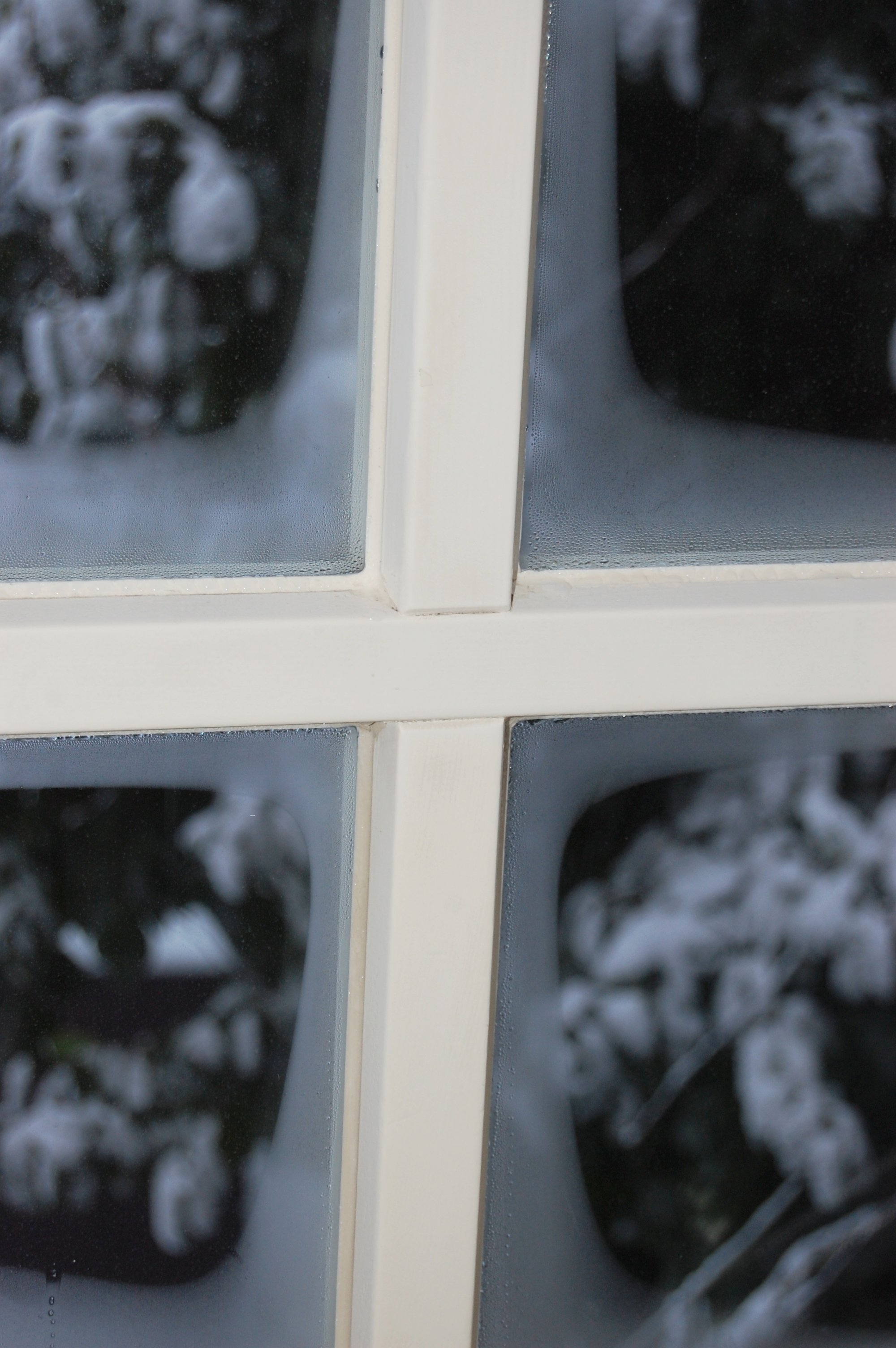 Lattice window with timber frame showing Thermal bridging